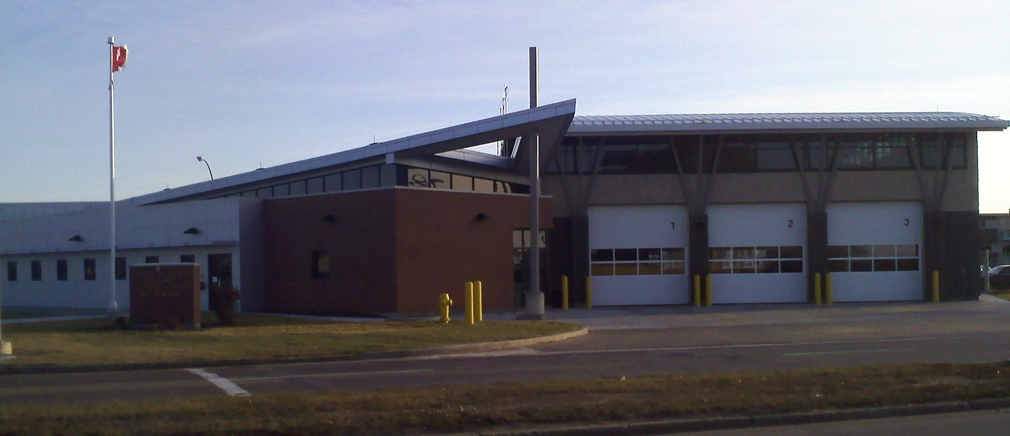 North face (Terrace Road) of Edmonton Fire Station Number Eleven at 6110 98 Avenue (back of building), Edmonton.